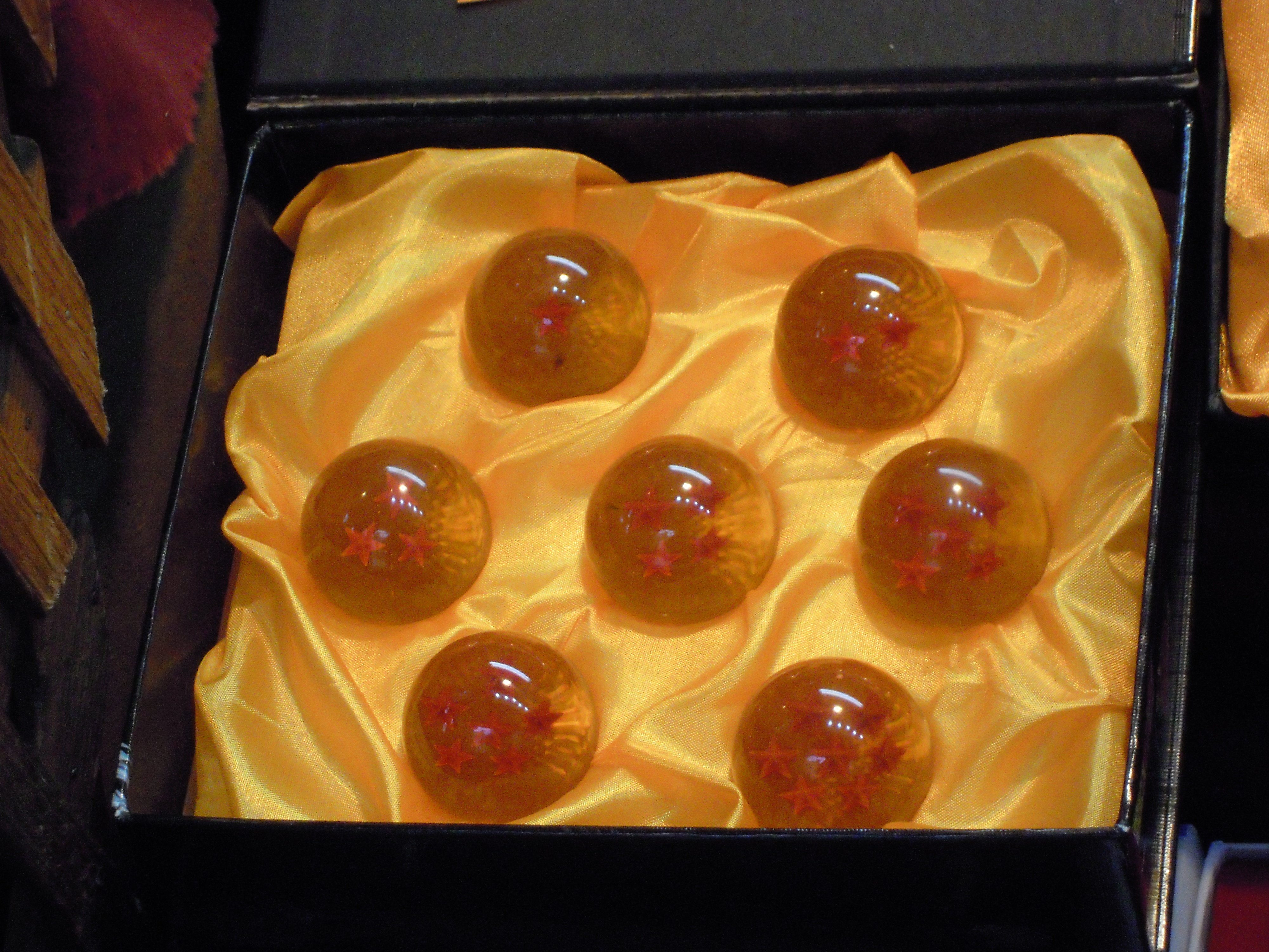 Dragon's Balls reproduction